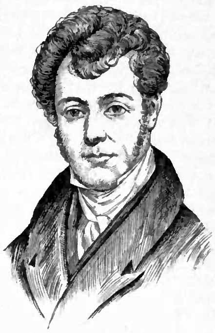 Portrait of Scottish-born poet William Wilson (1801-1860) who emigrated to the United States.